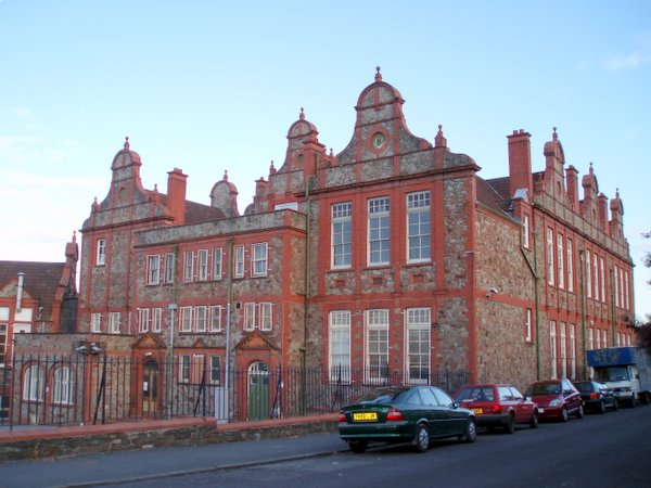 Fairfield School, Montpelier, Bristol. The school, situated in Fairlawn Road, Montpelier, began life in 1898 as Fairfield Secondary and Higher Grade School. It was accorded grammar school status in 1945, after the 1944 Education Act. In Easter 2006 the site was replaced with a new school in a different location as this building only had capacity for 500 pupils, which was deemed insufficient.